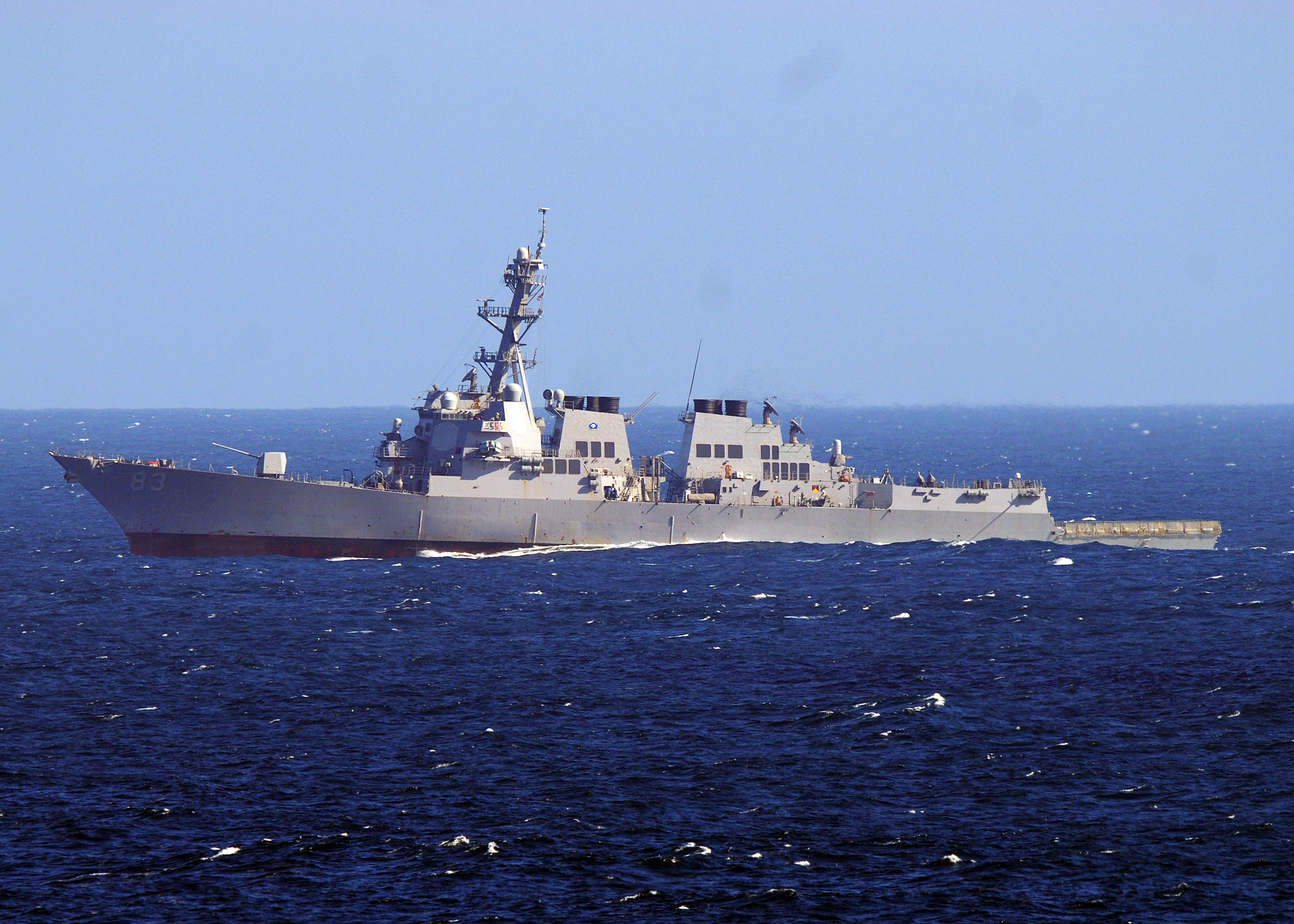 PACIFIC OCEAN (Nov. 10, 2010) The guided-missile destroyer USS Howard (DDG 83) transits the Pacific Ocean. (U.S. Navy photo by Mass Communication Specialist 3rd Class Shawn J. Stewart/Released)